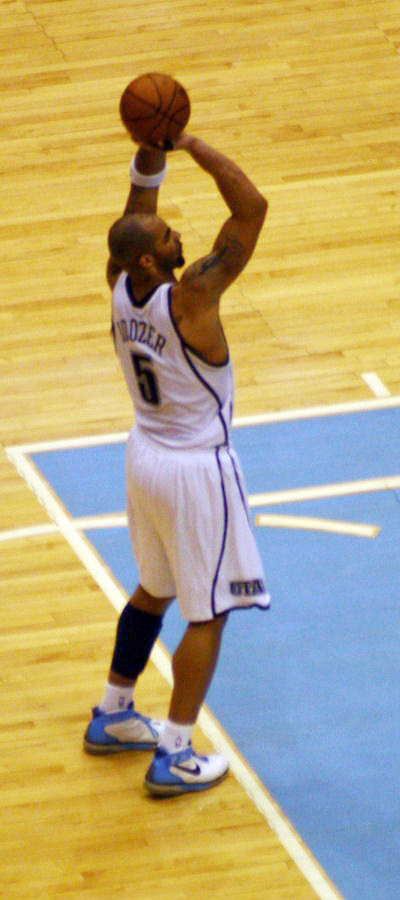 Carlos Boozer freethrow in the Utah Jazz-Dallas Mavericks game March 3rd 2008, which Utah won.